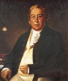 Robert Townson